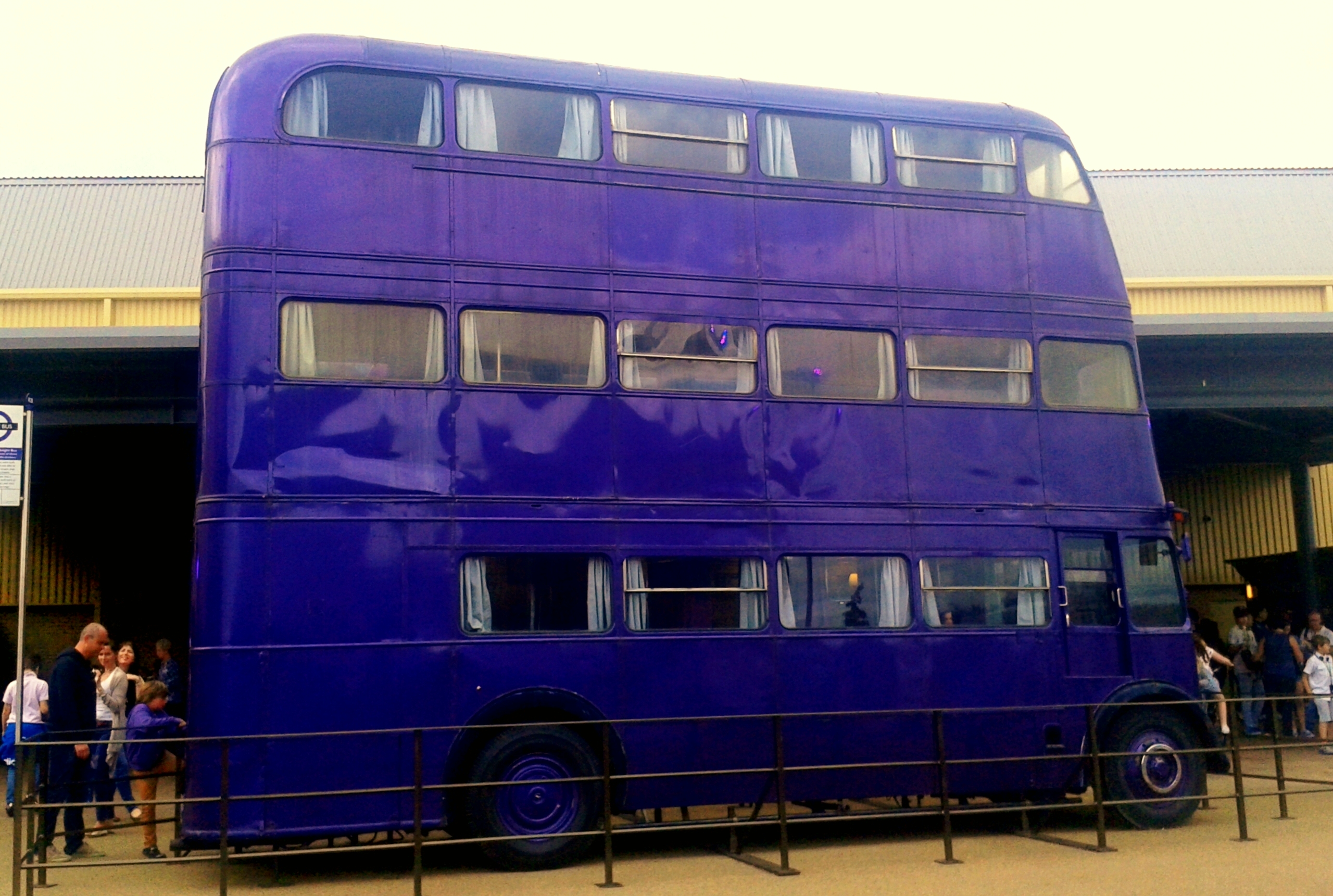 The Knight Bus is a purple triple-decker, specially modified AEC Regent III RT bus, used in the Harry Potter film series at Warner Bros. Studios, Leavesden, UK